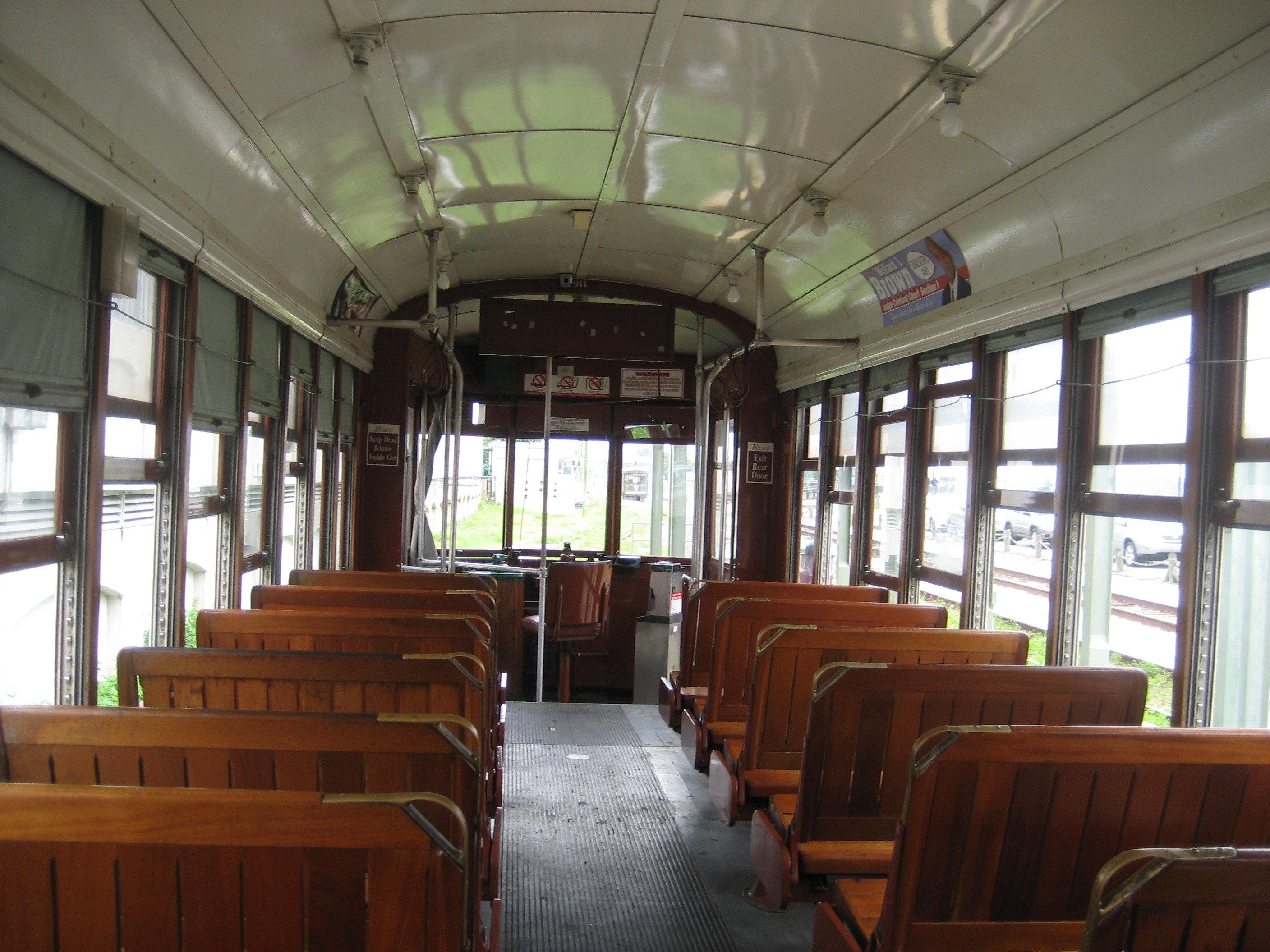 Interior of Pearly Thomas streetcar running the Riverfront route in New Orleans